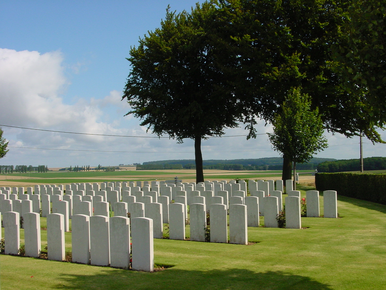 Part of Flesquières Hill British Cemetery near Cambrai: the site of the battle of Cambrai (1917). Bourlon Wood is in the background.